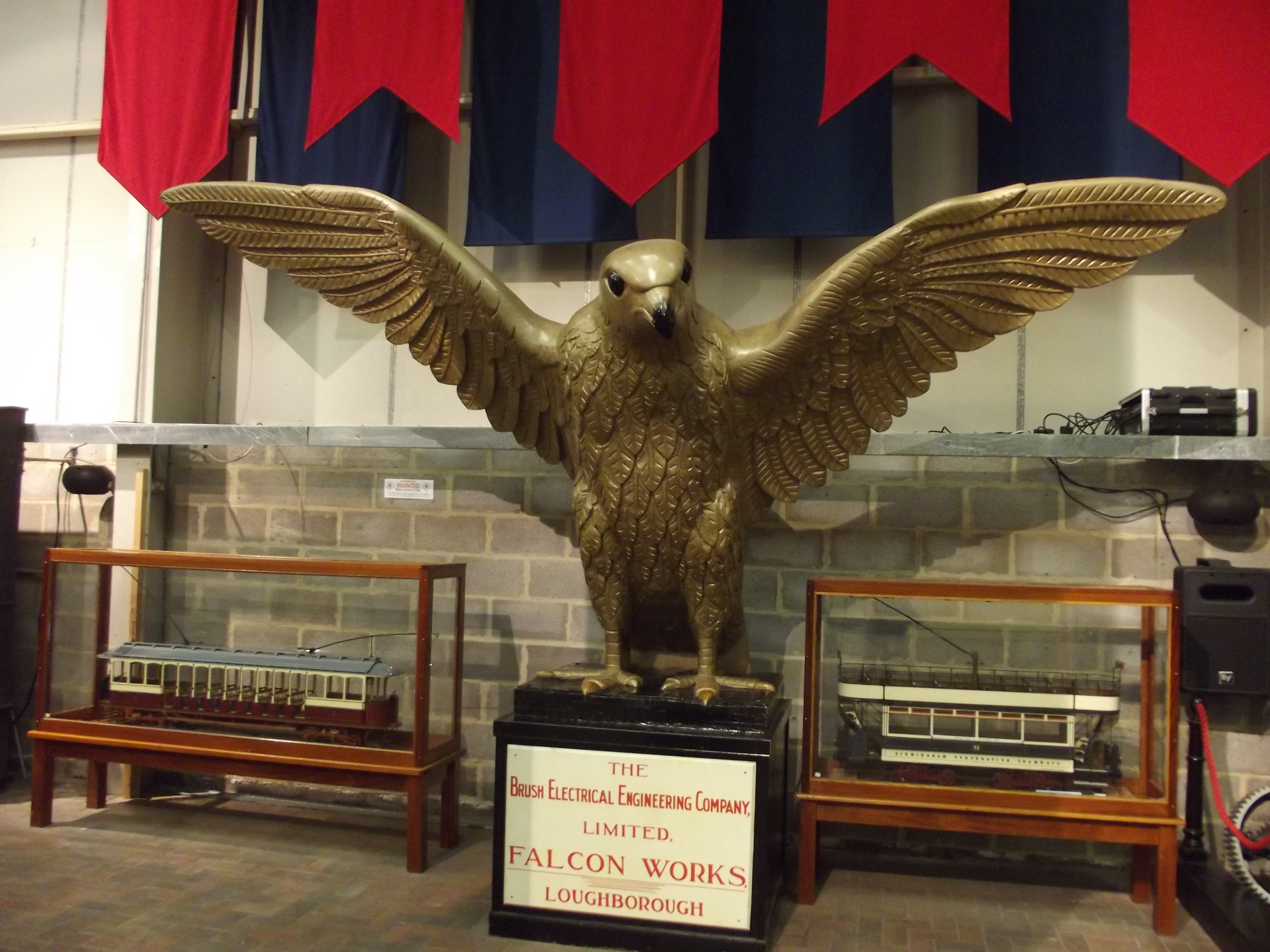 At the National Tramway Museum in Crich. The Museum started in the 1950s / 60s when most of the old tram networks in the cities of the UK were being closed down. The Tramway Museum Society was formed in the late 1940s when the decline began and they started to purchase the trams, track etc. The Crich site came to the attention of the society in the late 1950s. They later purchased the site. The Great Exhibition Hall - Century of Trams Exhibition model trams Falcon sculpture The Brush Electrical Engineering Company Limited Falcon Works Loughborough Left: Kinver Light Railway The Kinver Light Railway operated a passenger and freight tramway service between Amblecote and Kinver between 1901 and 1930. Right: Birmingham Corporation Tramways - Aston Cross to Steelhouse Lane. Loaned from R. Whetstone Esq.